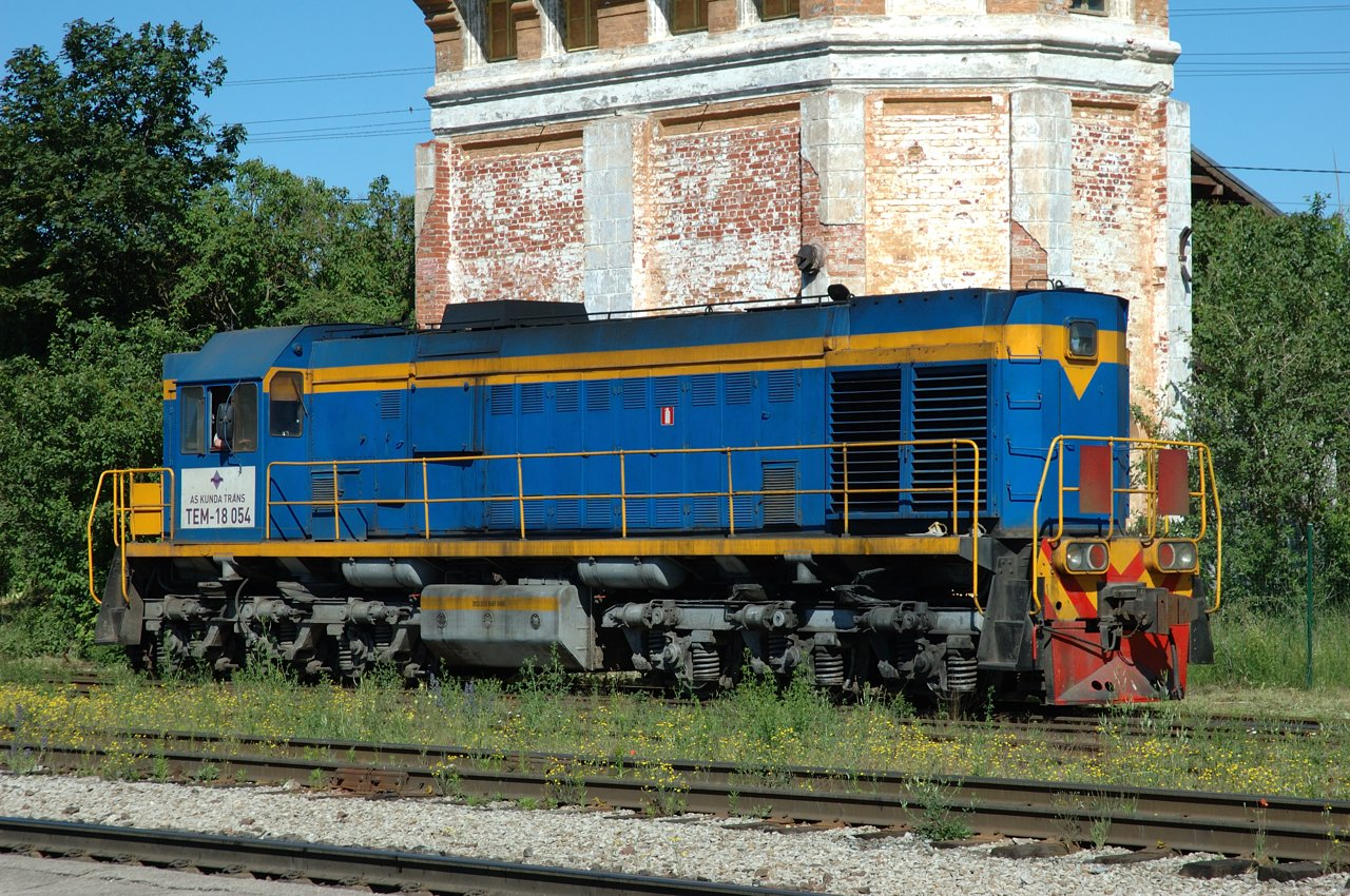 TEM18-054 of KUNDA TRANS railway operator is shunting at Rakvere railway station, Estonia